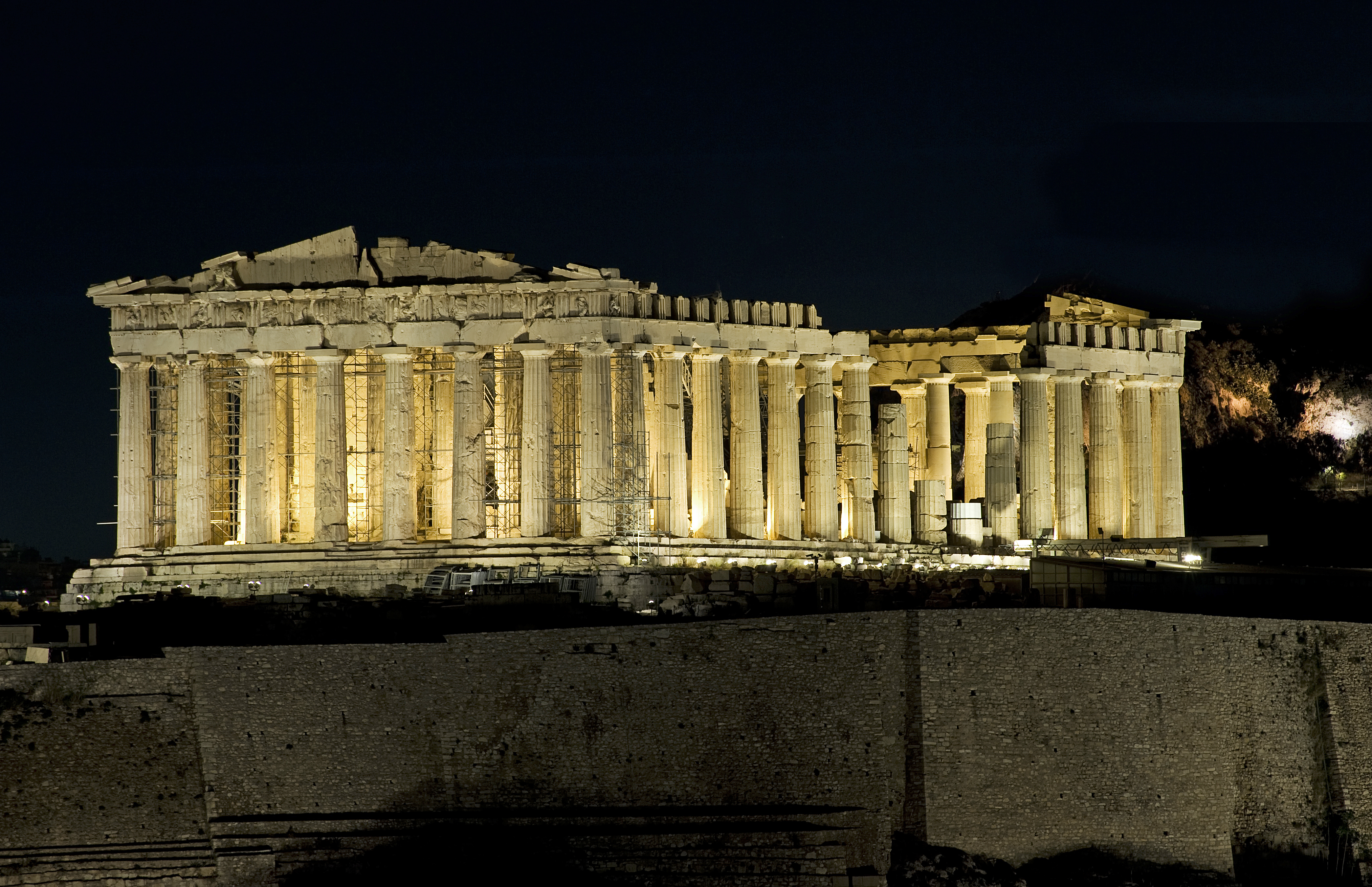 Parthenon, Athens, Greece.